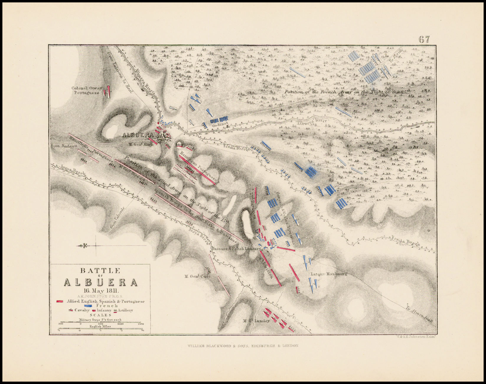 Scan of map produced by Alexander Keith Johnston for Sir Archibald Alison’s book Alison's History of Europe, published in 1850. publisher William Blackwood & sons